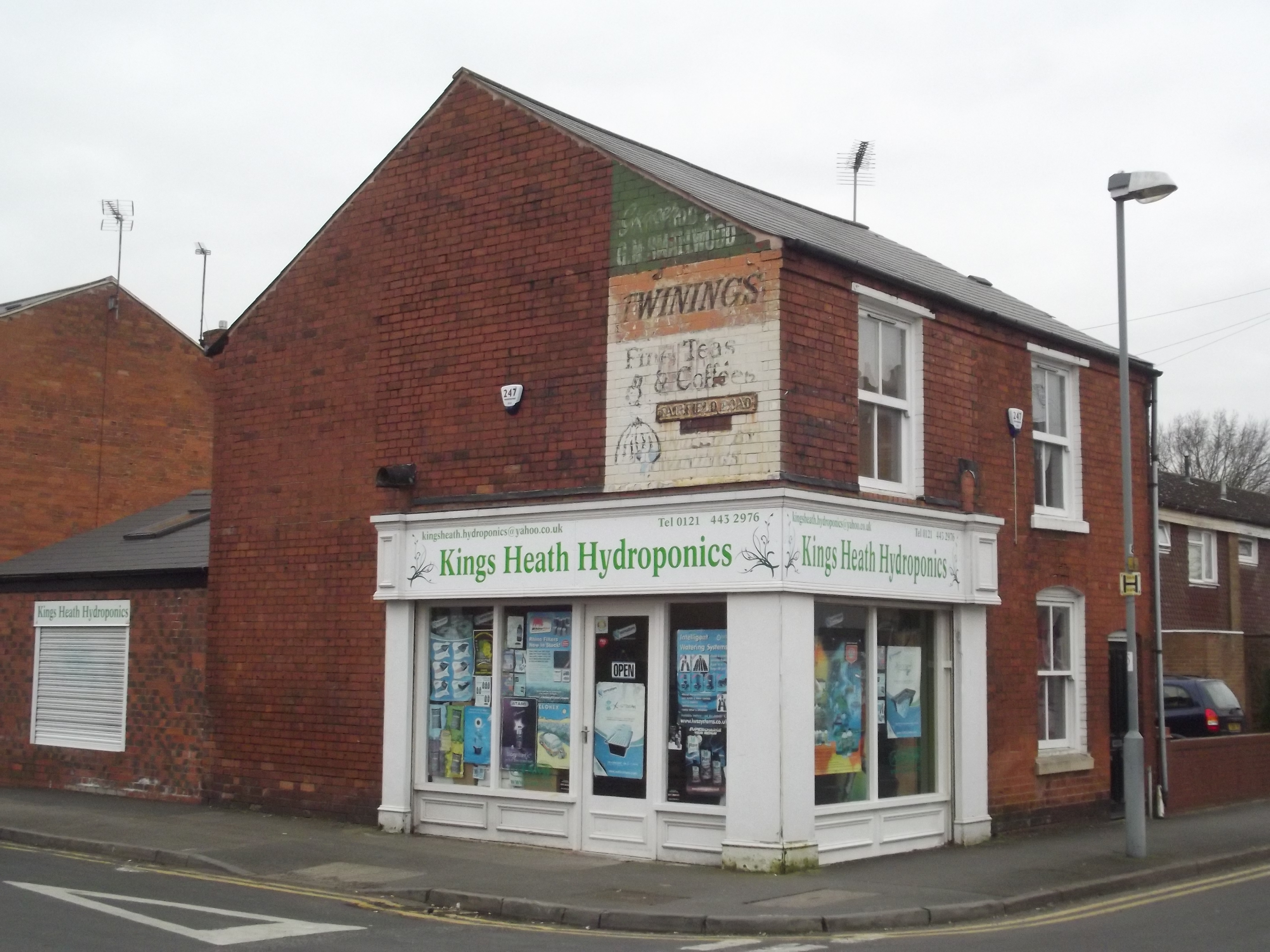 Wall advert on the corner of Silver Street and Fairfield Road in Kings Heath for Twinings, on what is now Kings Heath Hydroponics. Based on the information on the sign, it was Smallwood Grocers, run by G M Smallwood. The figure is Little Miss Barber.